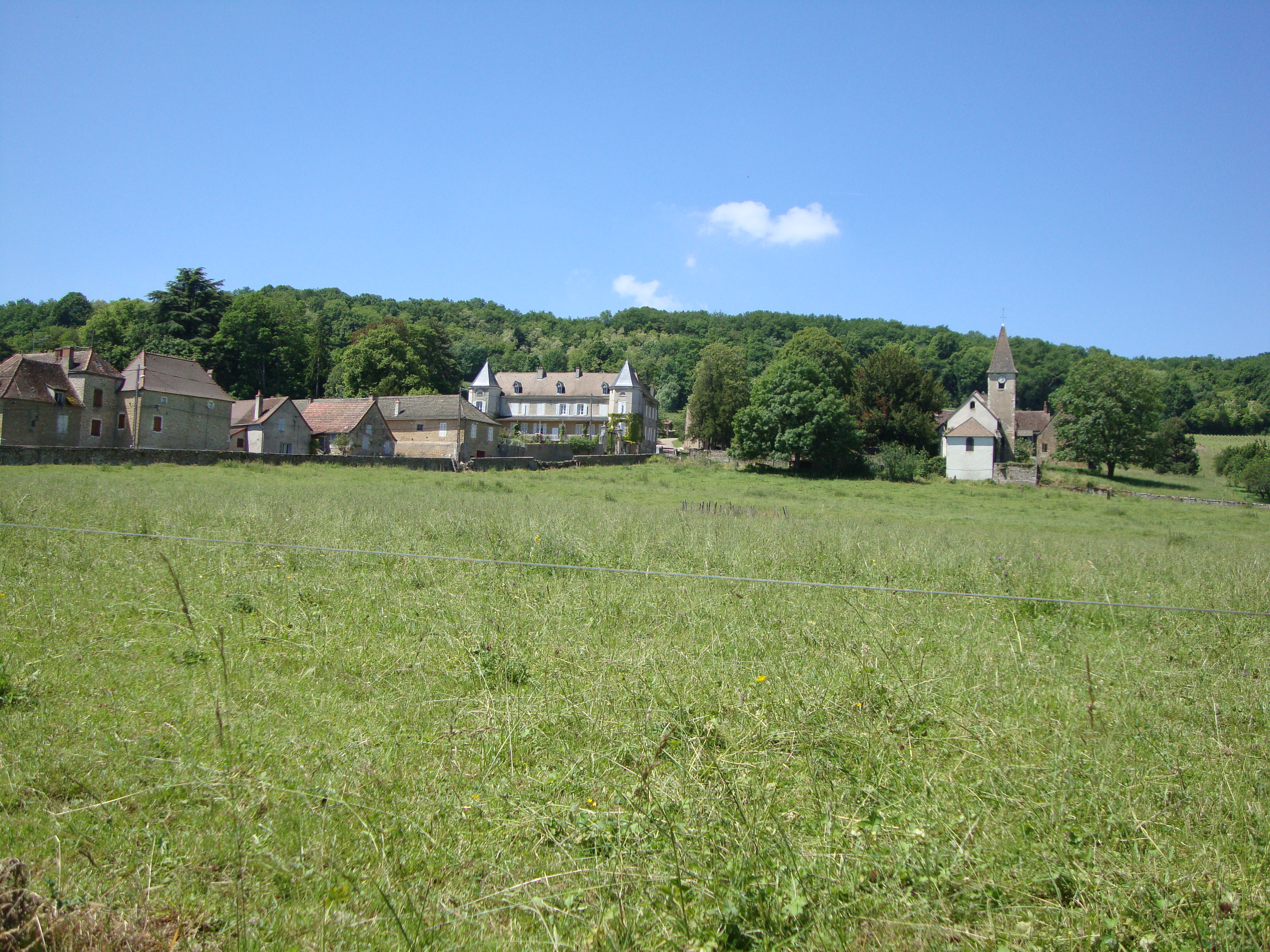 Chenôves (Saône-et-Loire, Fr) view of the village